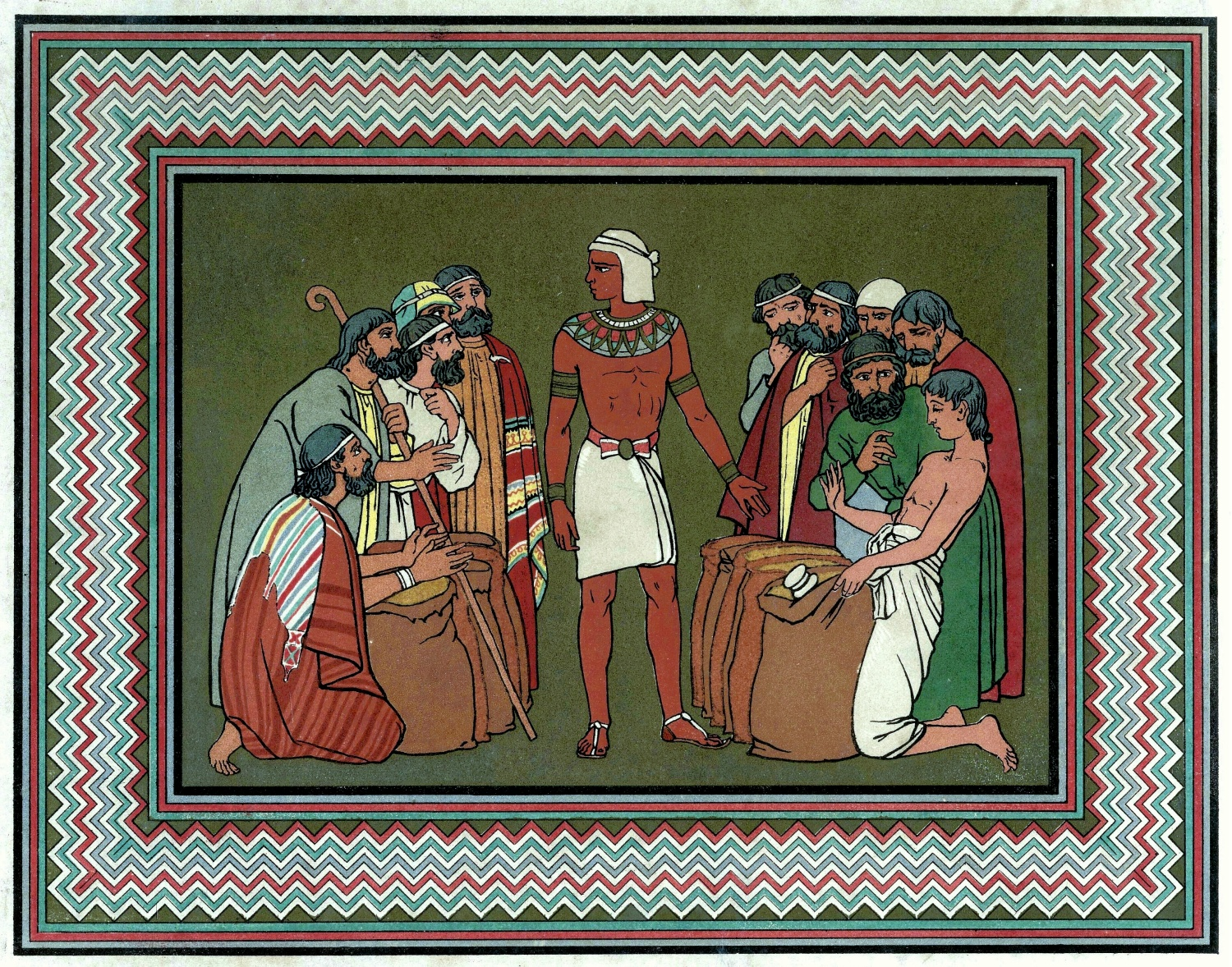 Illustration by Owen Jones from "The History of Joseph and His Brethren" (Day & Son, 1869). Scanned and archived at where it was marked as Public Domain. Text from Book: And they speedily took down every man his sack to the ground, and opened every man his sack. And he searched, and began at the eldest and left at the youngest: and the cup was found in Benjamin's sack. Genesis, C. XLIV. V. 11. 12.